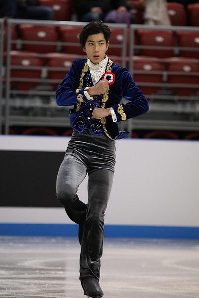 Photos – Junior World Championships 2018 – Men (Sena MIYAKE JPN – 18th Place)